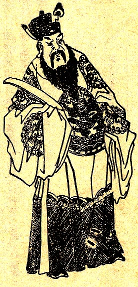 Portrait of Dong Zhuo from a Qing Dynasty edition of the Romance of the Three Kingdoms